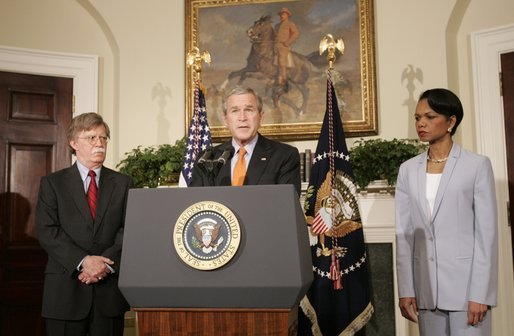 Accompanied by Secretary of State Condoleezza Rice, President George W. Bush announces his nomination of John Bolton, left, as the U.S. Ambassador to the United Nations Monday, Aug. 1, 2005, in the Roosevelt Room of the White House.